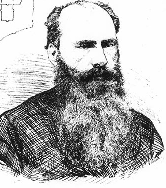 Joseph-Noël Ritchot Image reproduced from the Canadian Illustrated News, May 16, 1874. Online from the Glenbow Archive, NA-1406-215